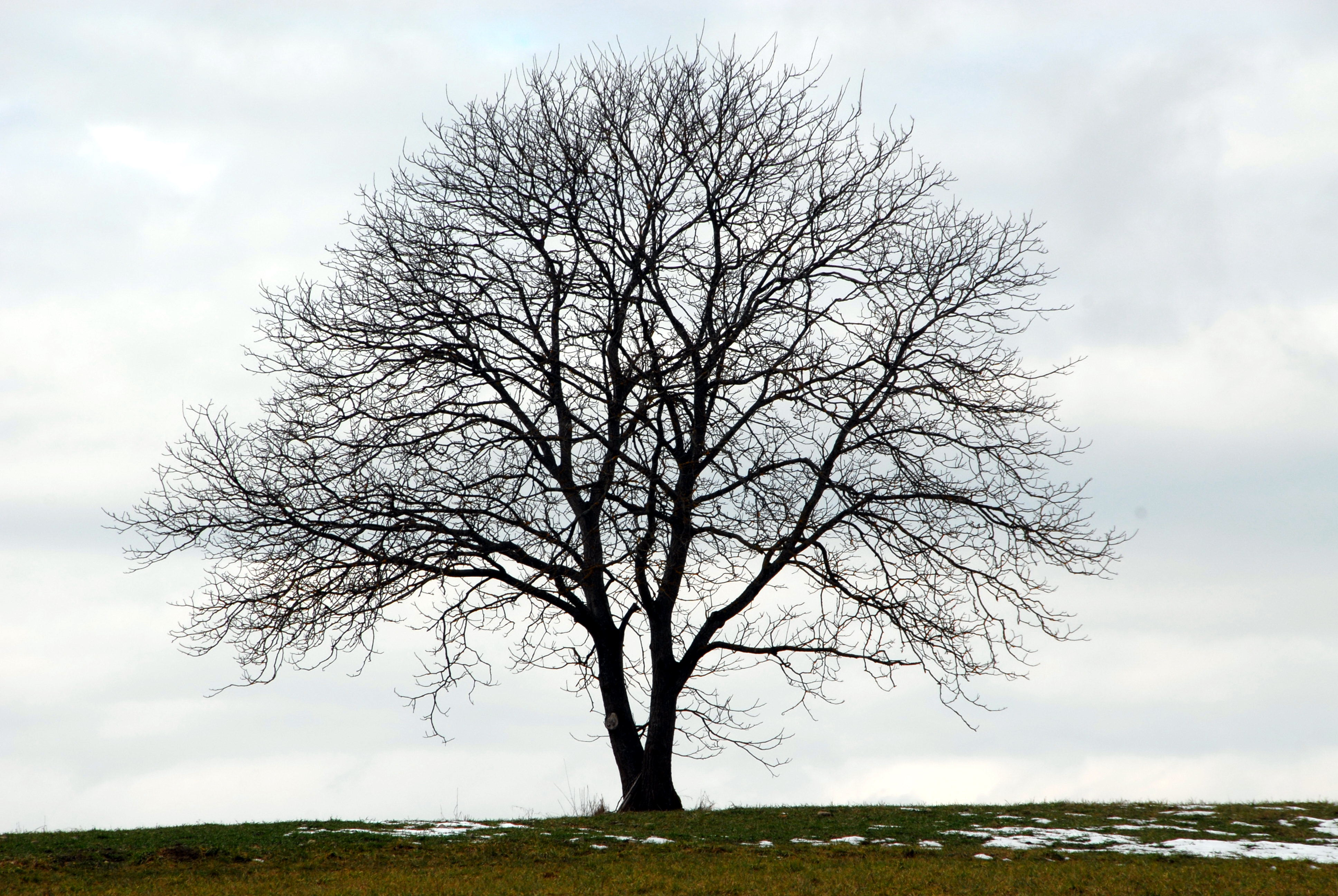 Walnut tree in winter